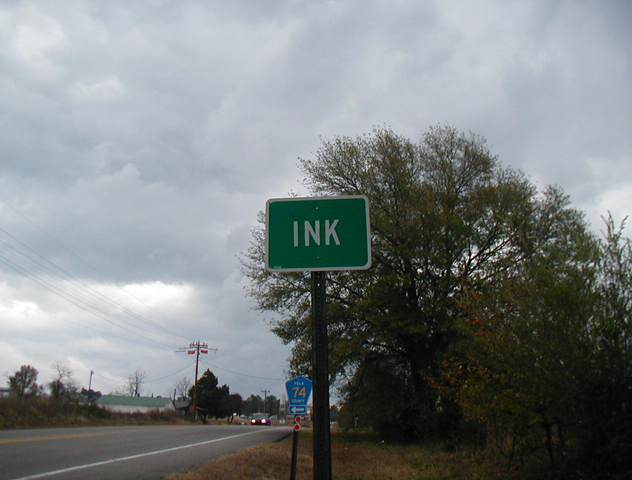 Sign marking Ink, Arkansas.